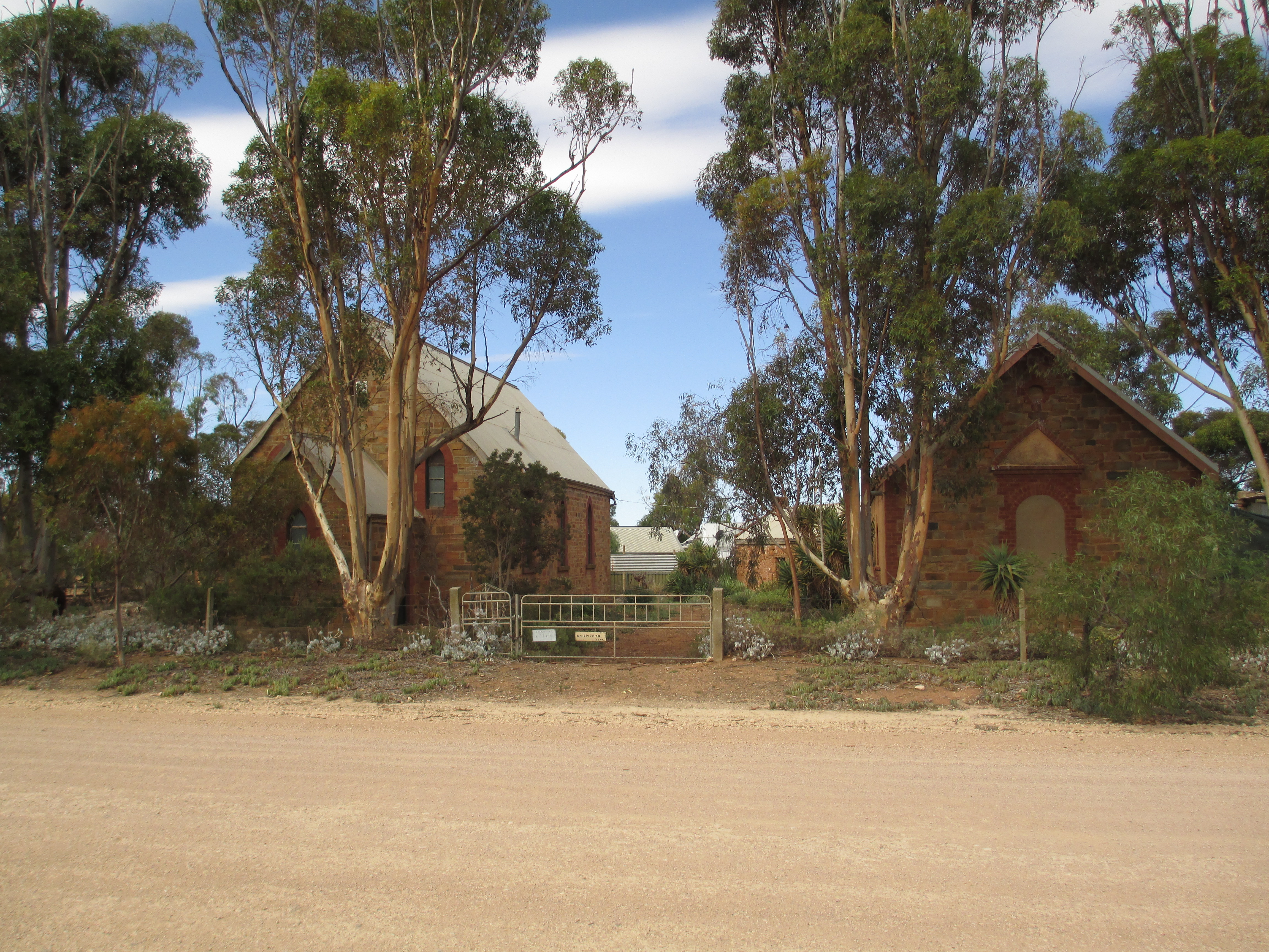 The building on the left was the church, the one on the right was the school building